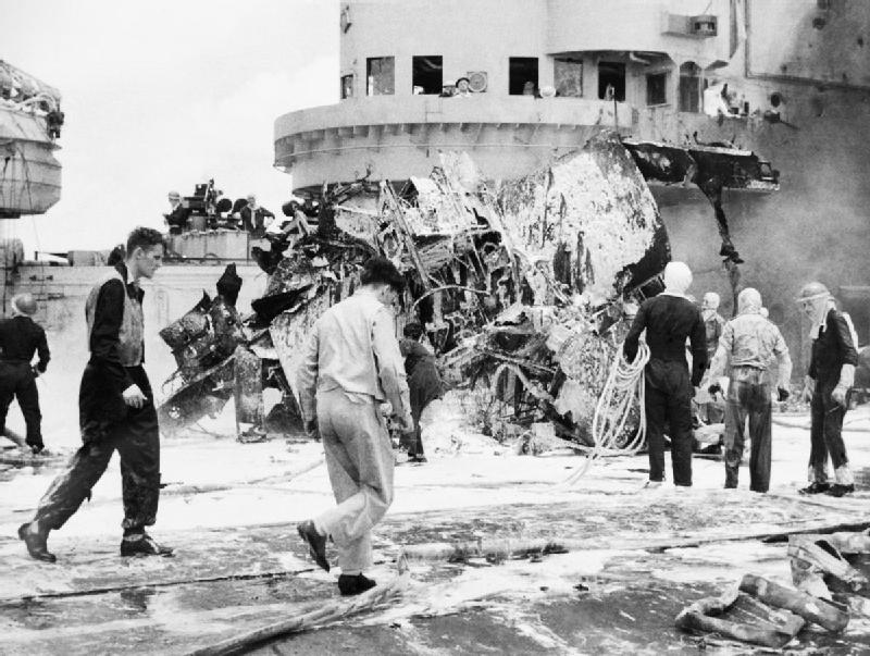 The remains of a Japanese Kamikaze aircraft that crashed on board HMS FORMIDABLEoff the Sakishima Islands, May 1945. Firefighters busy on board HMS FORMIDABLE after a Japanese suicide plane had crashed on the flight deck whilst she was operating off the Sakishima Islands in support of the Okinawa landings. The forward part of the aircraft carrier's island can be seen, some of it is badly scorched whilst the flight deck is covered in foam and water.